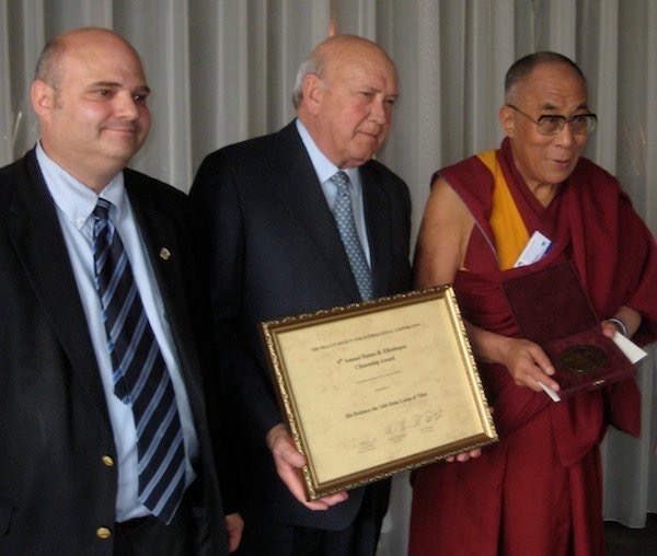 HRE Recipient Dalai Lama (14)